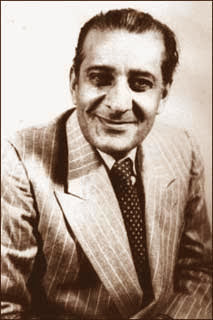 Malik Ghulam Muhammad (1895 – 1956). Third British Governor-General of Pakistan (1951 - 1955).